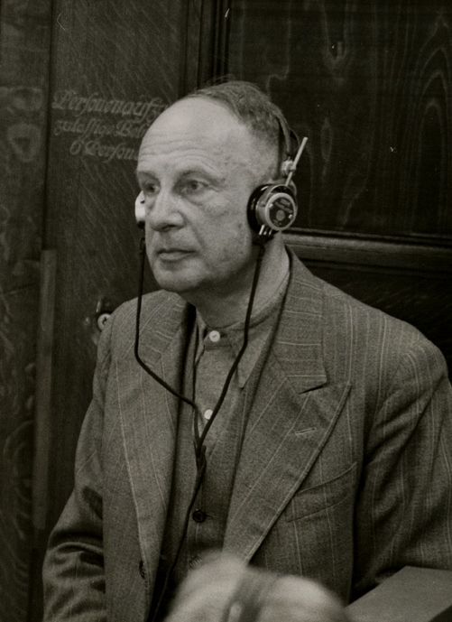 Prosecution witness Rudolf Lehmann, former Ministerial Director in the OKW and Chief of the Armed Forces Legal Division, sits on the witness stand at the Nuremberg Trials. OMGUS Military Tribunal - Case Three OMT-III-W-72